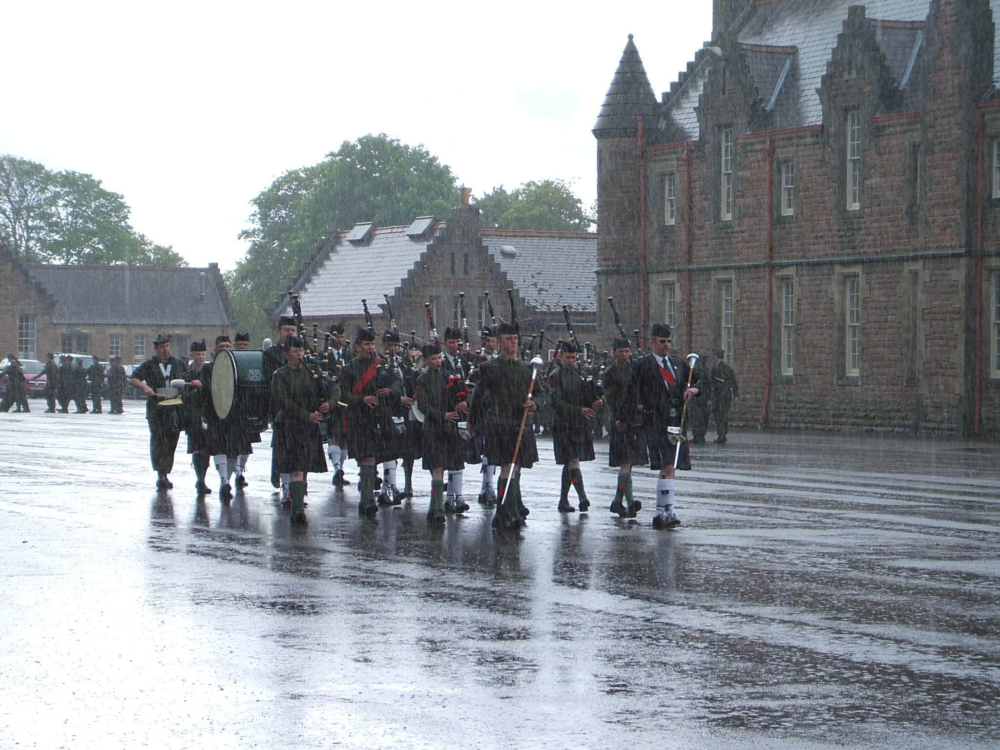 1,000 views on 21st June 2012 Joint Pipe Band with Army Cadet Pipe Band at Cameron Barracks Inverness on occasion of the Rebadging Ceremony of the Cadets following the merging of the parent regiment (The Highlanders) into the Royal Regiment of Scotland (4 SCOTS). One cloudburst later.